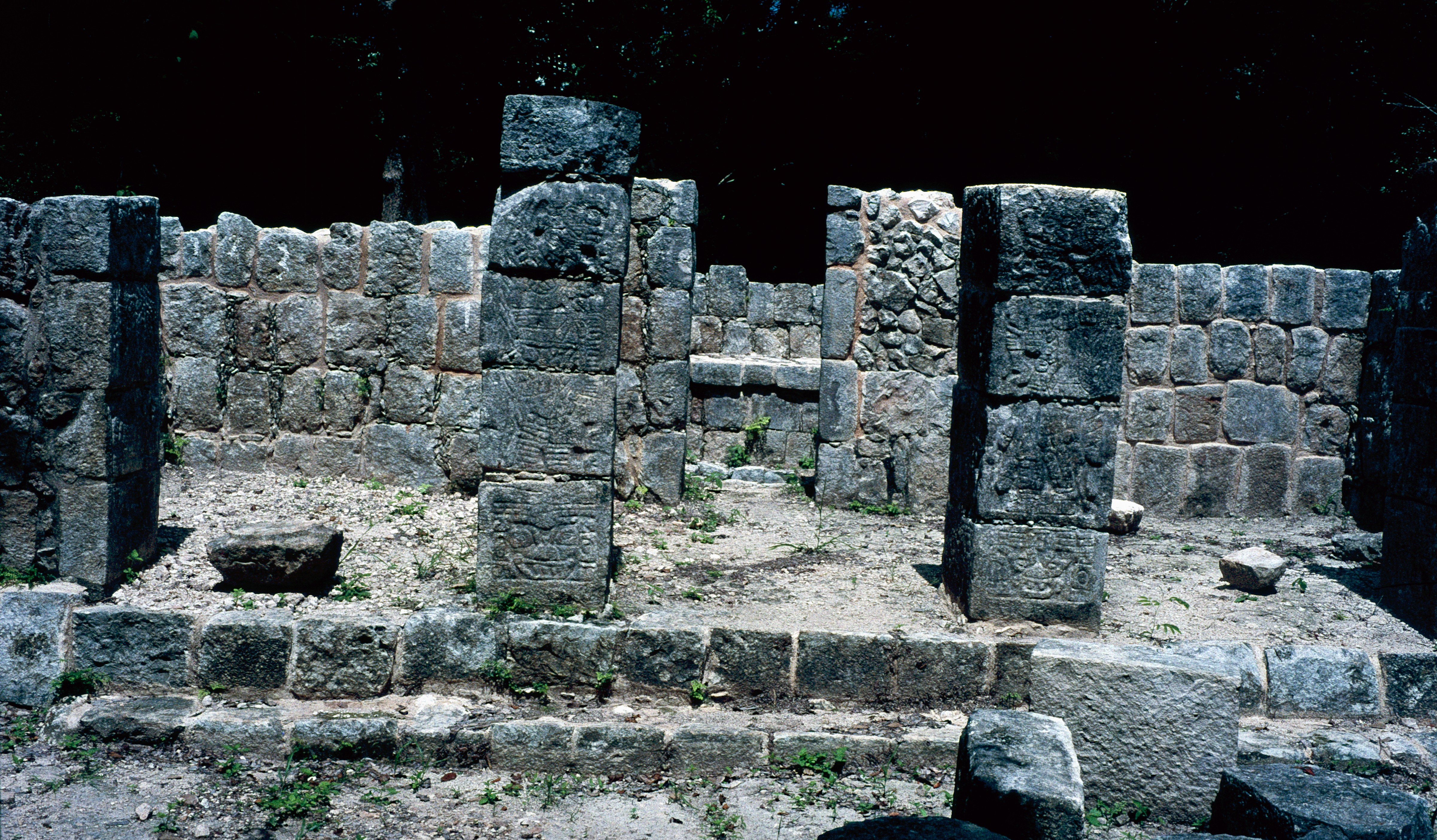 Chichen Itza, Yucatan, Mexico. Xtoloc Temple